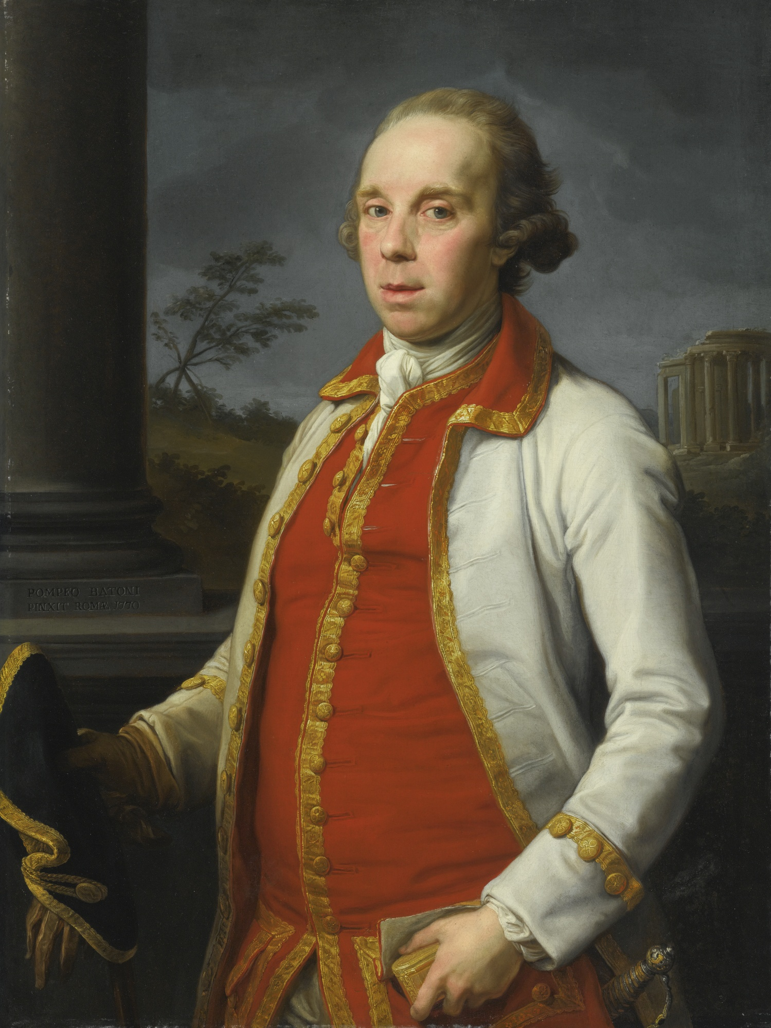 Portrait of Robert Udny (1722-1802), half-length, in a gold-trimmed coat, holding a hat and gloves in his right hand, the Temple of the Sybil at Tivoli Beyond.